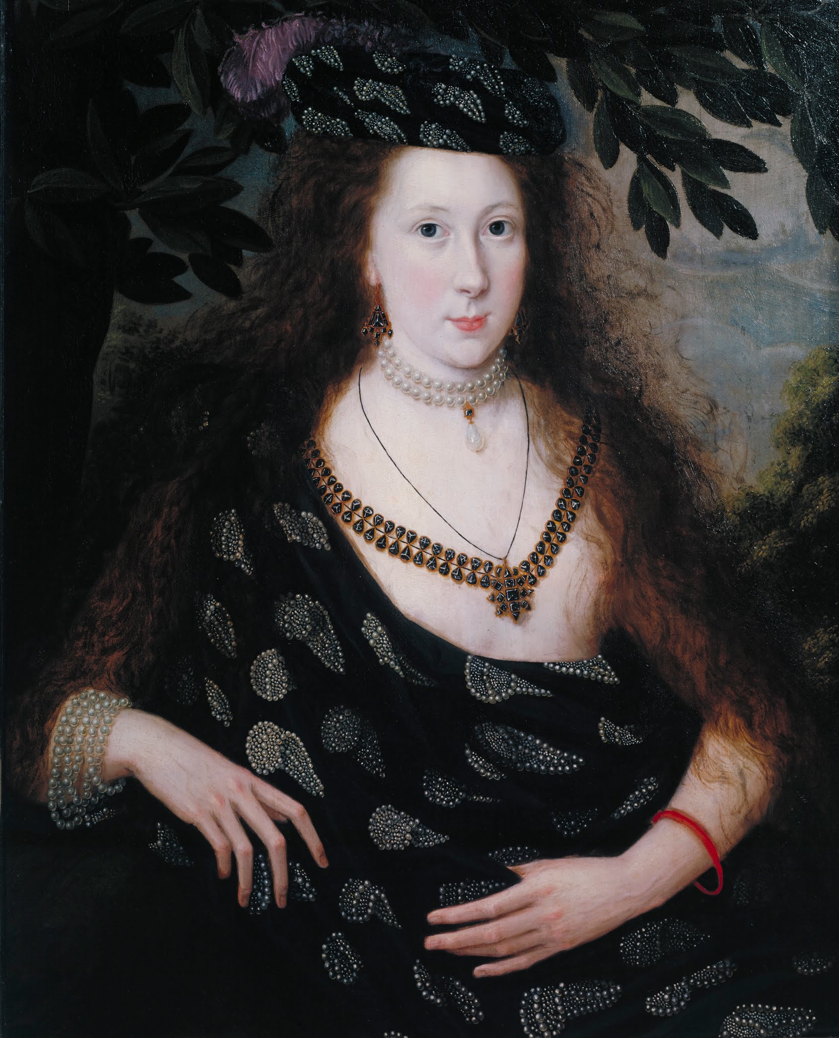 Lady Elizabeth Pope in masquing or allegorical dress